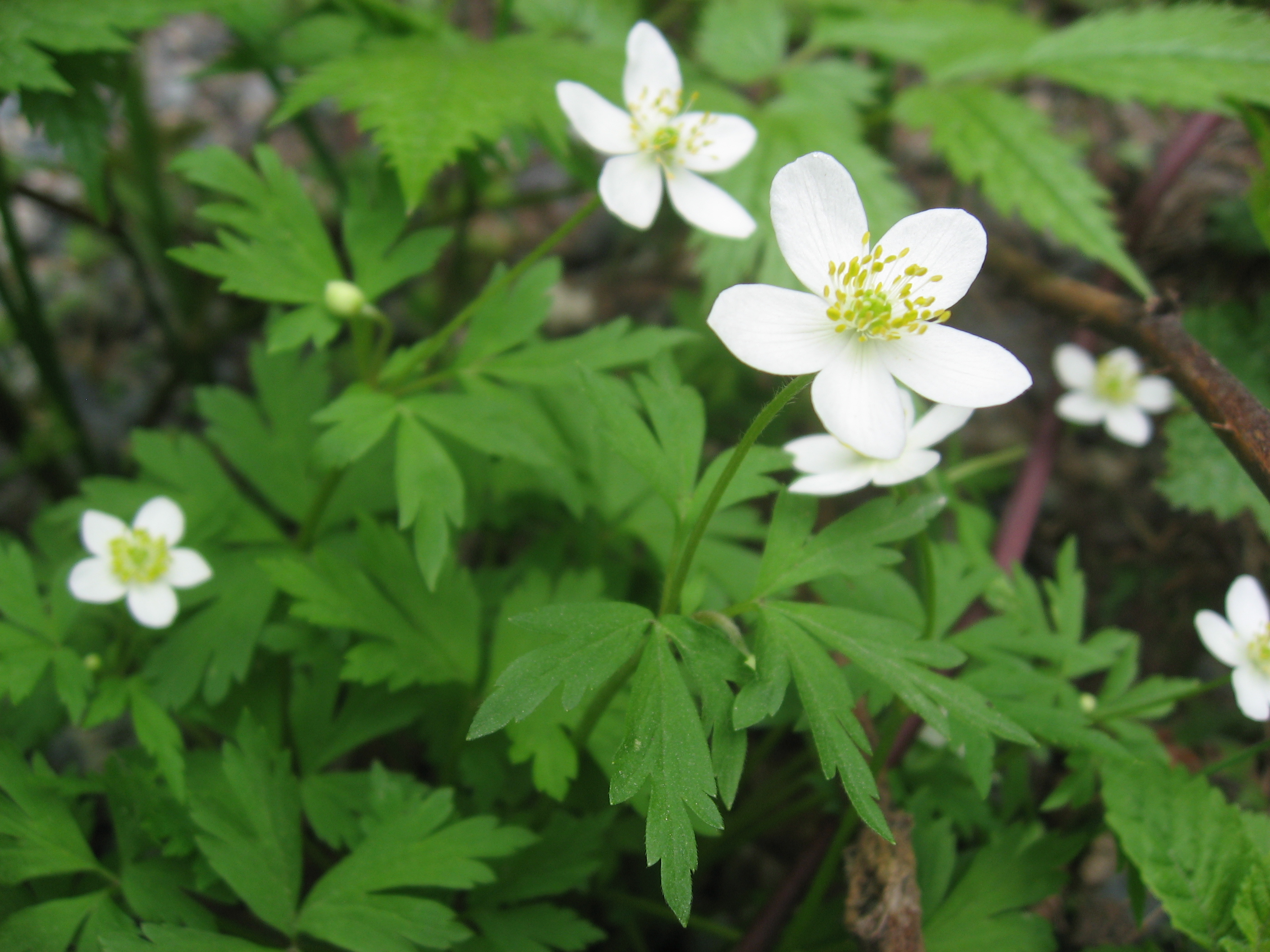 Anemone stolonifera, Aizu area, Fukushima pref., Japan